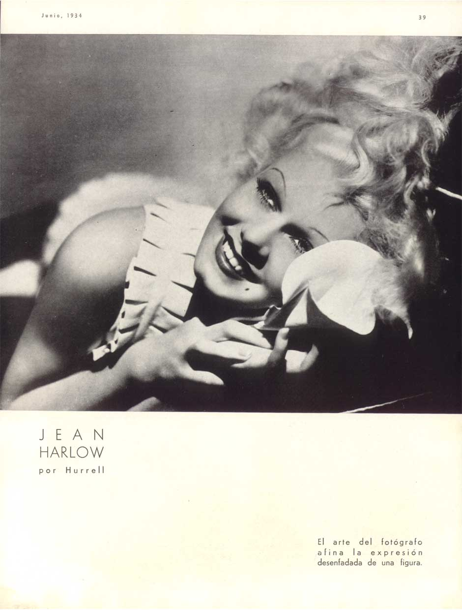 Publicity photo of Jean Harlow for Argentinean Magazine. (Printed in USA)